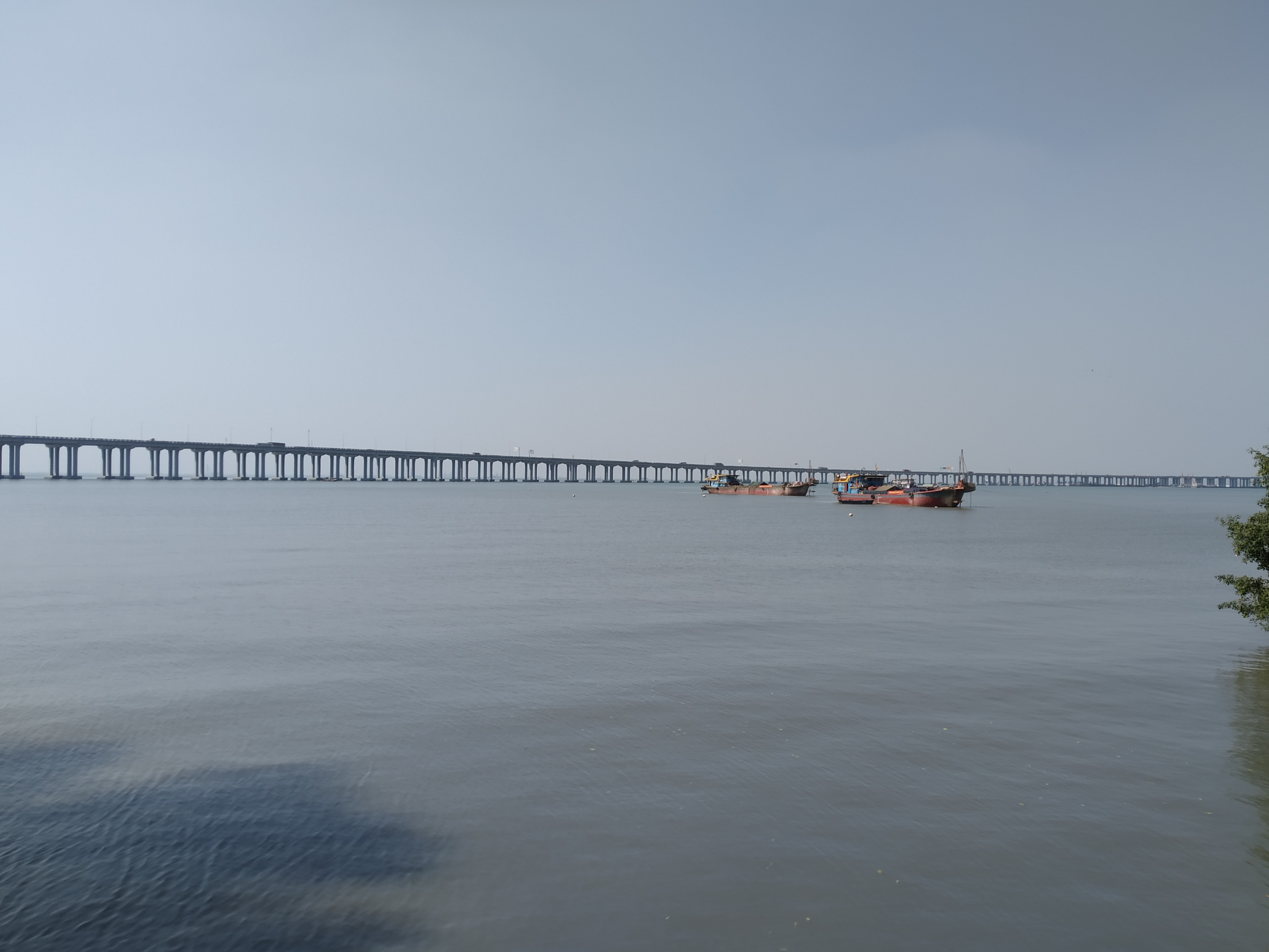 A highway (广深沿江高速) seen from Bao'an Xiwan Mangrove Forest Park (宝安西湾红树林公园), a park in Bao'an District, Shenzhen, China.